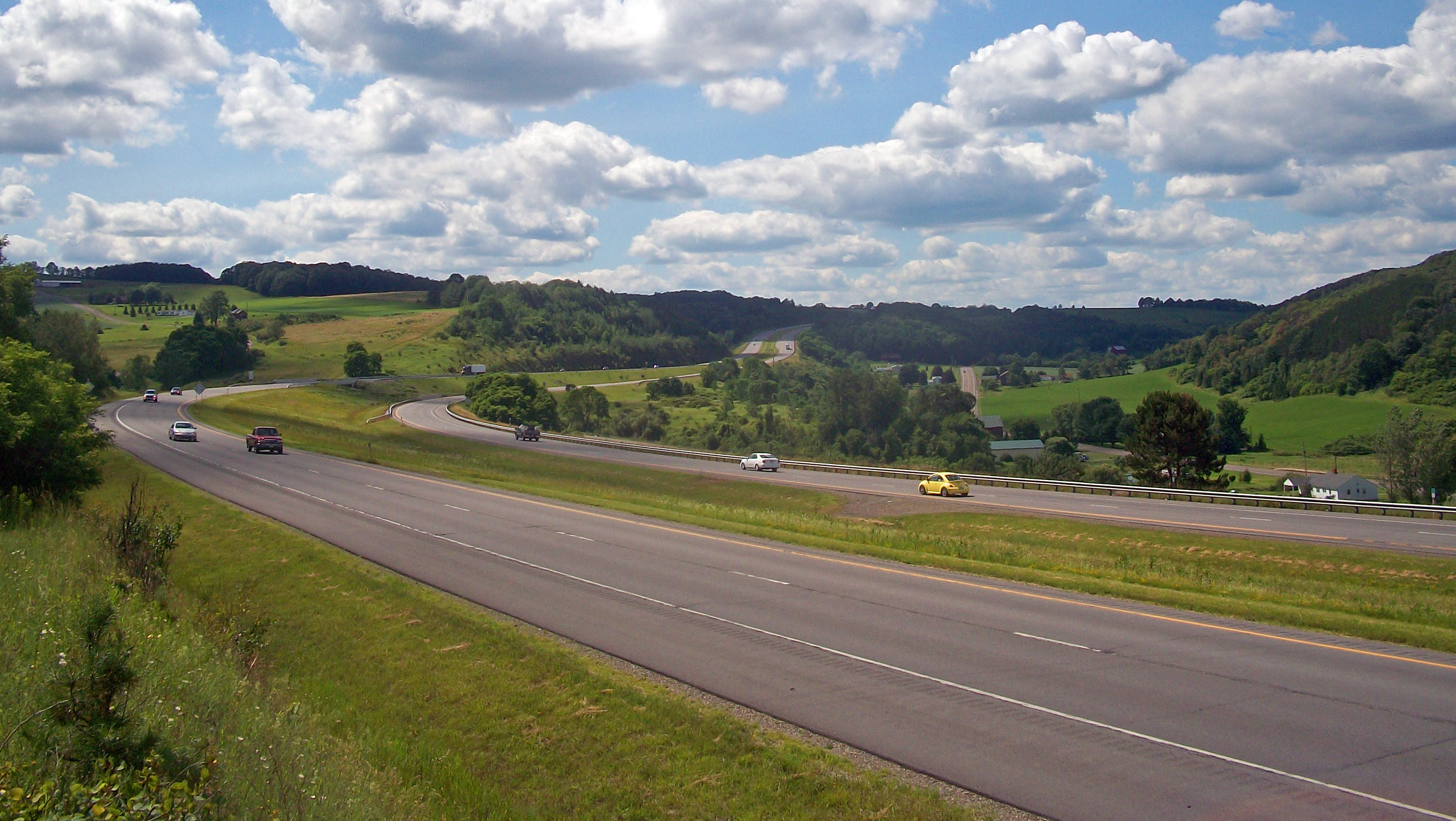 Looking north along Interstate 390 near Cohocton, NY